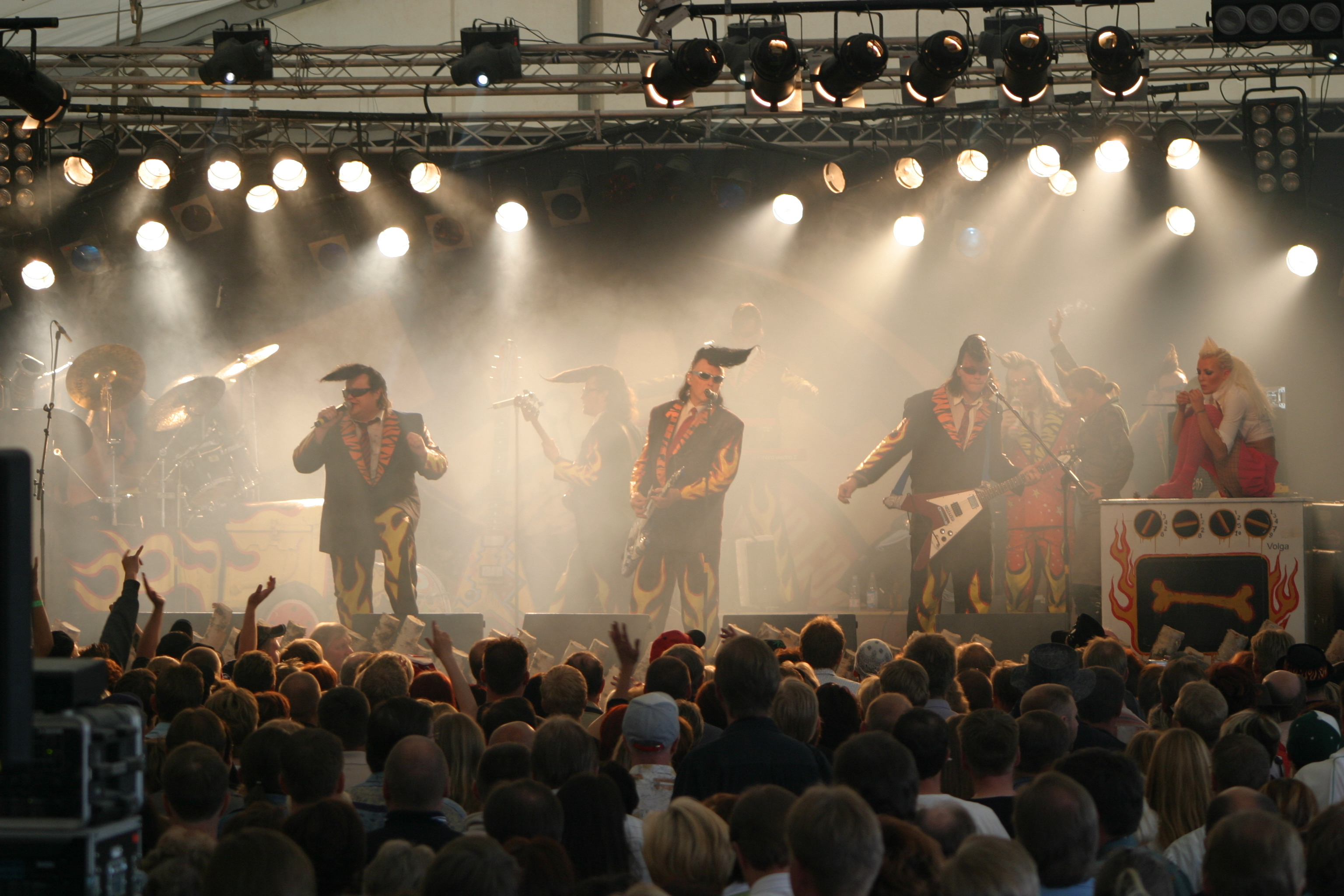 Leningrad Cowboys in Vihreät Niityt music festival in the summer 2005.